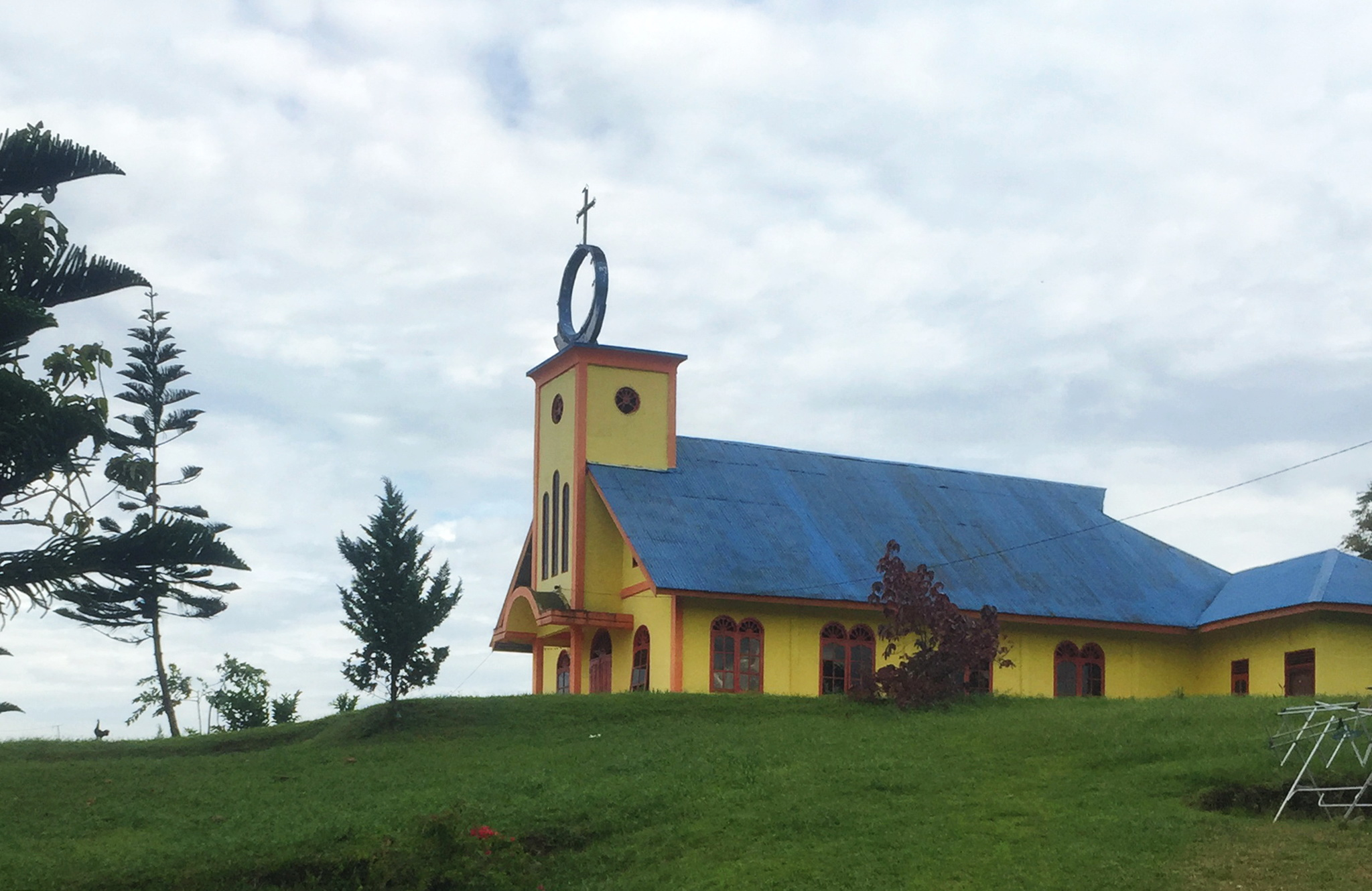 HKBP Sibuntuon, church in Sibuntuon, Dolok Pardamean, Simalungun